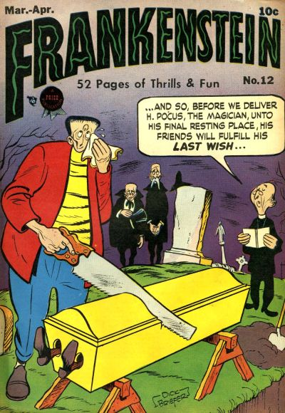 Cover art by Dick Briefer (pencils & inks, as signed)